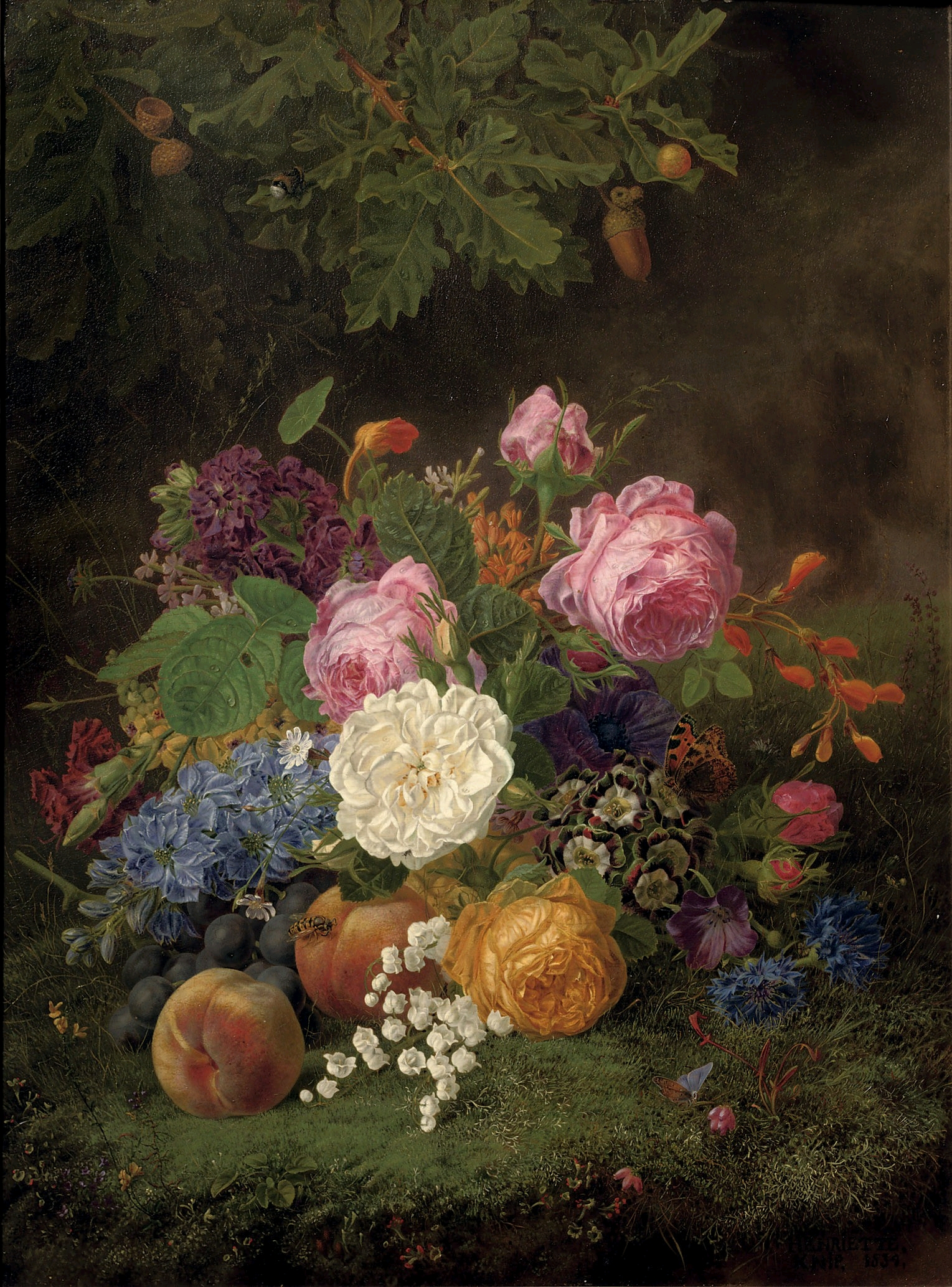 A colorful bouquet of flowers and various fruits on a forest floor